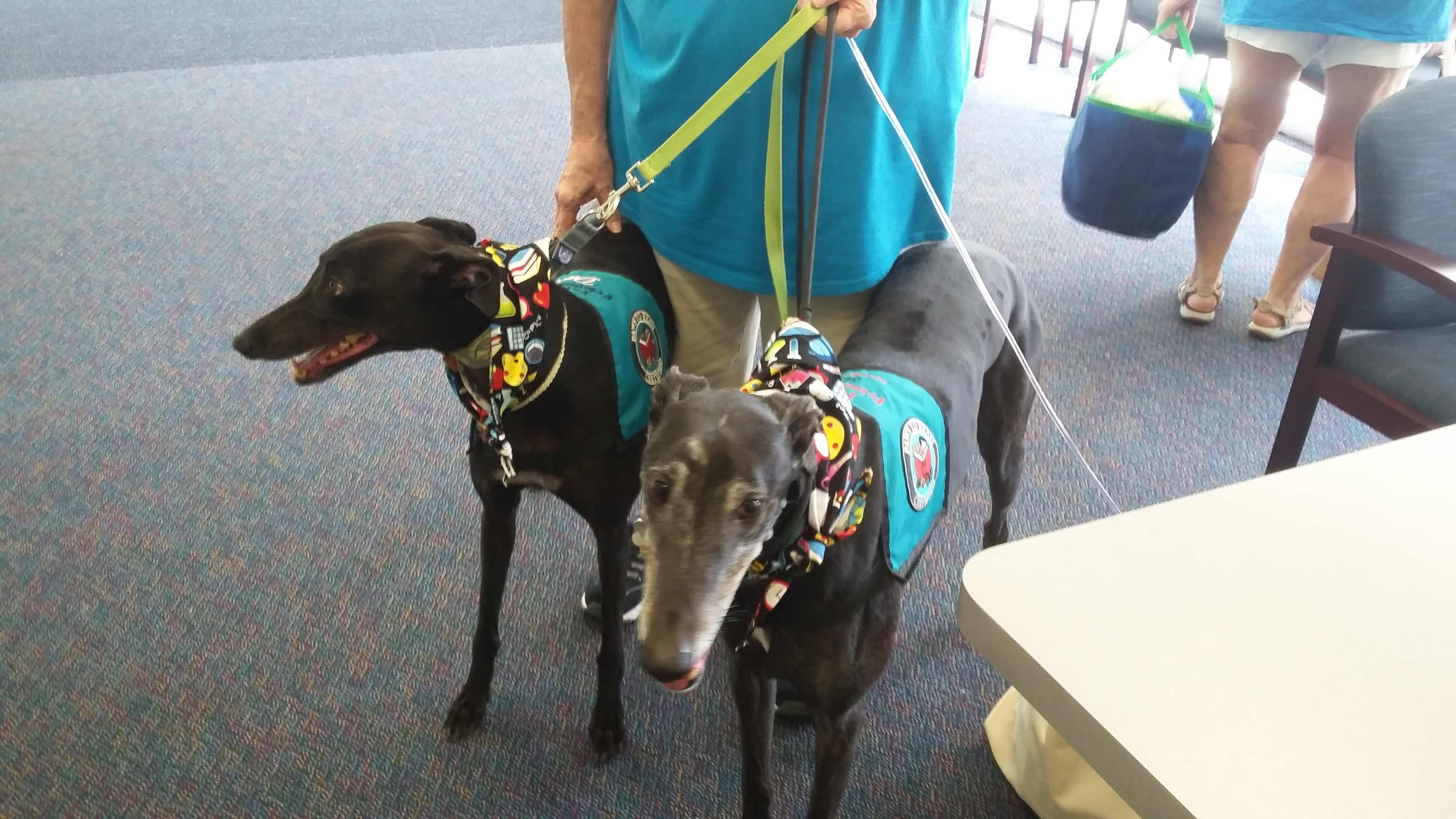 Retired greyhound racers trained as therapy dogs in a North Port, Florida elementary school